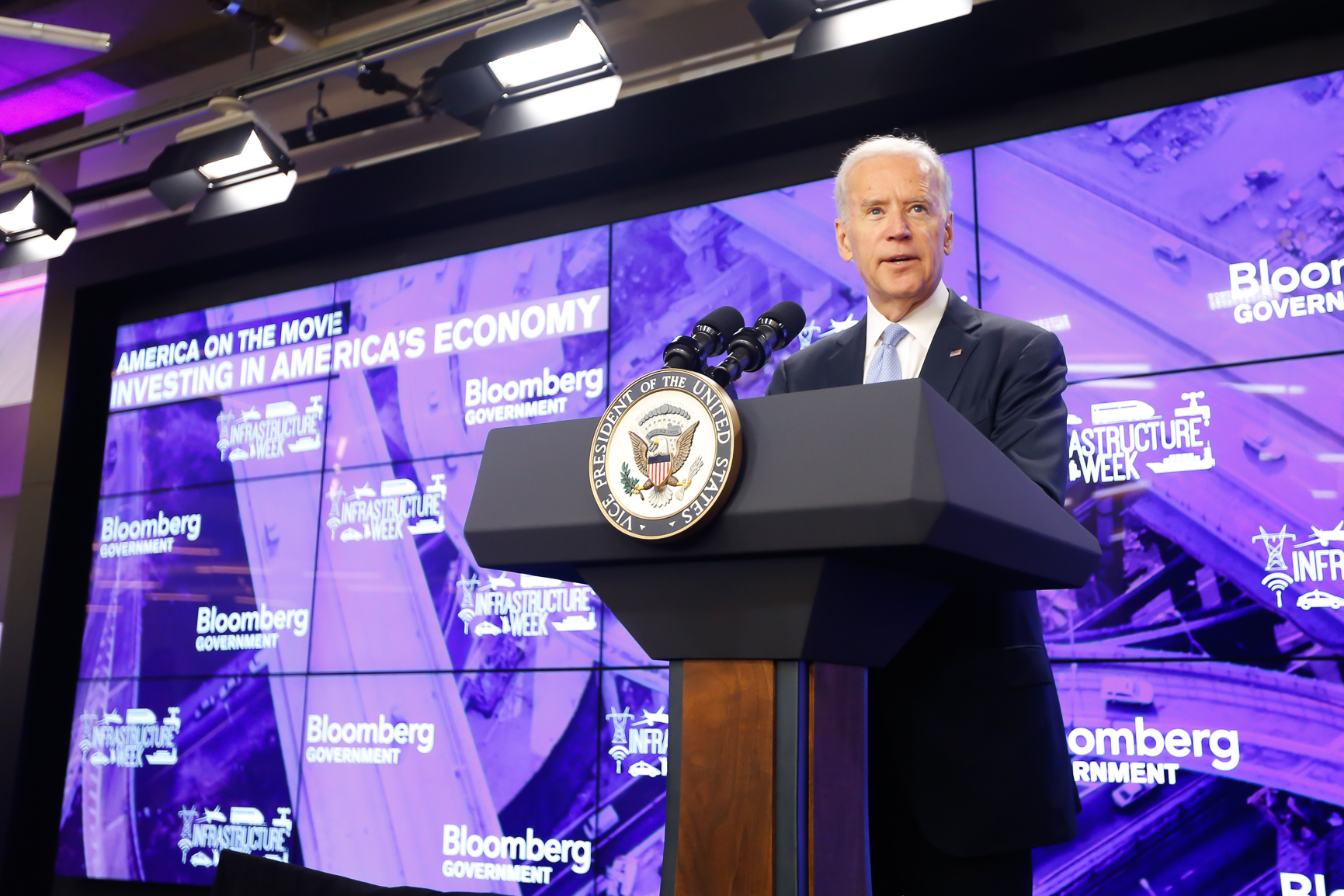 Vice President Joe Biden speaking at Bloomberg Government